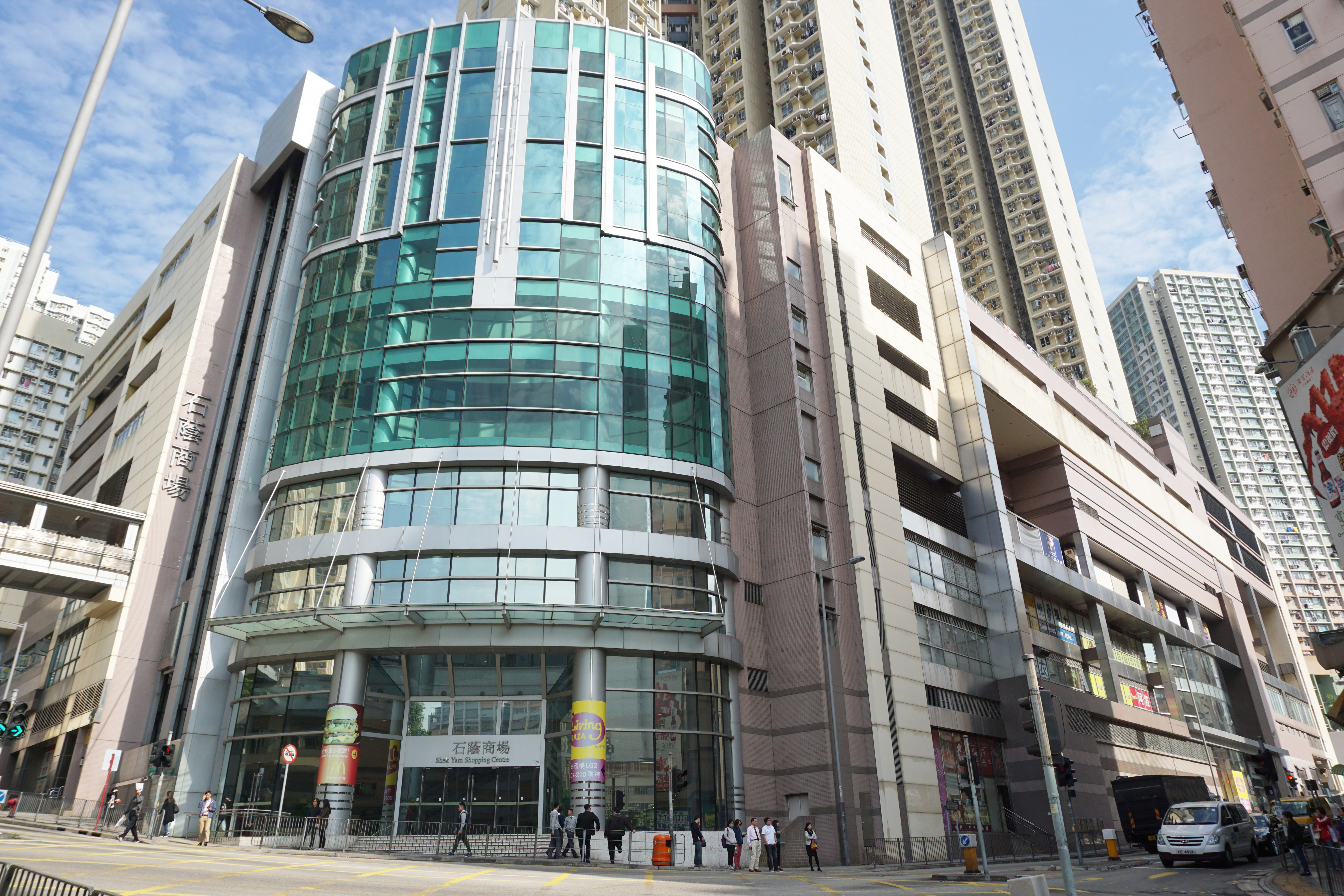 Shek Yam Shopping Centre in Shek Yam, Hong Kong.